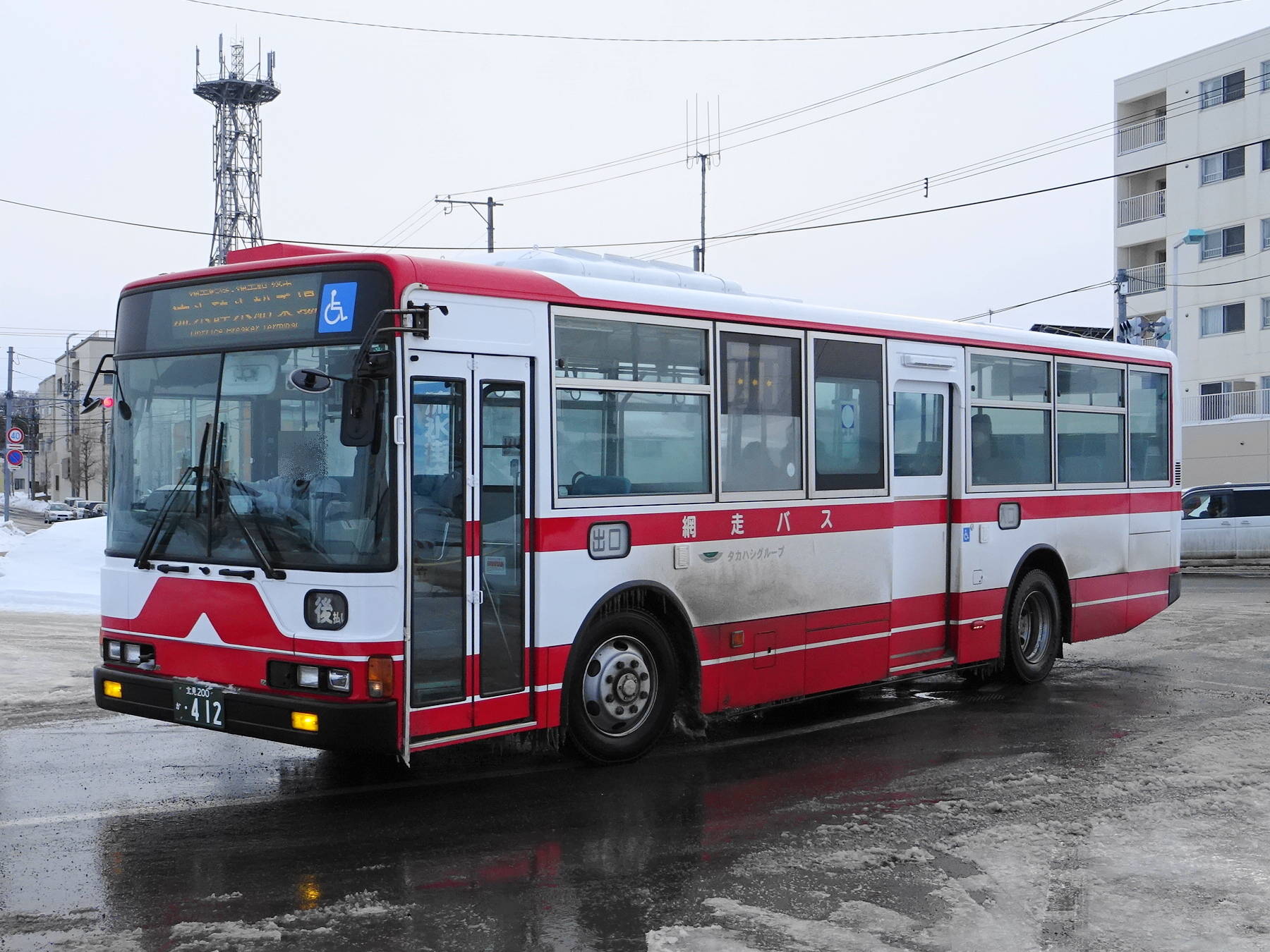 Abashiri city line